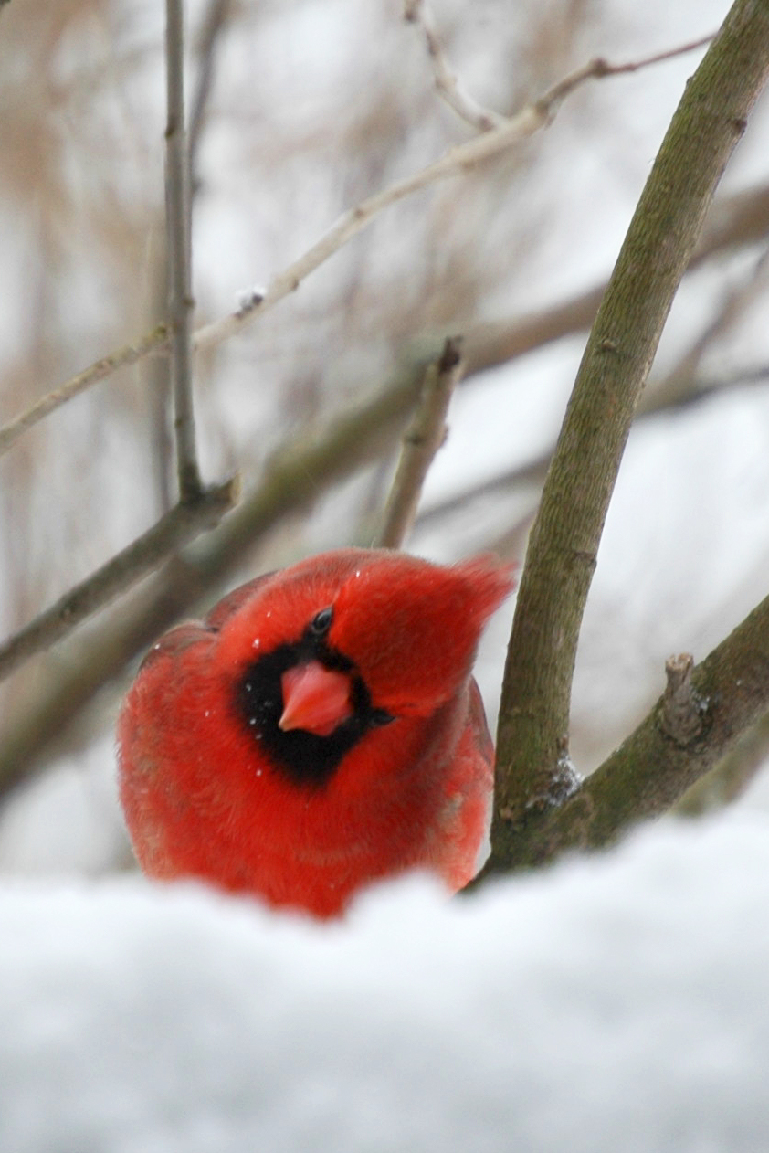 Northern Cardinal (Cardinalis cardinalis)